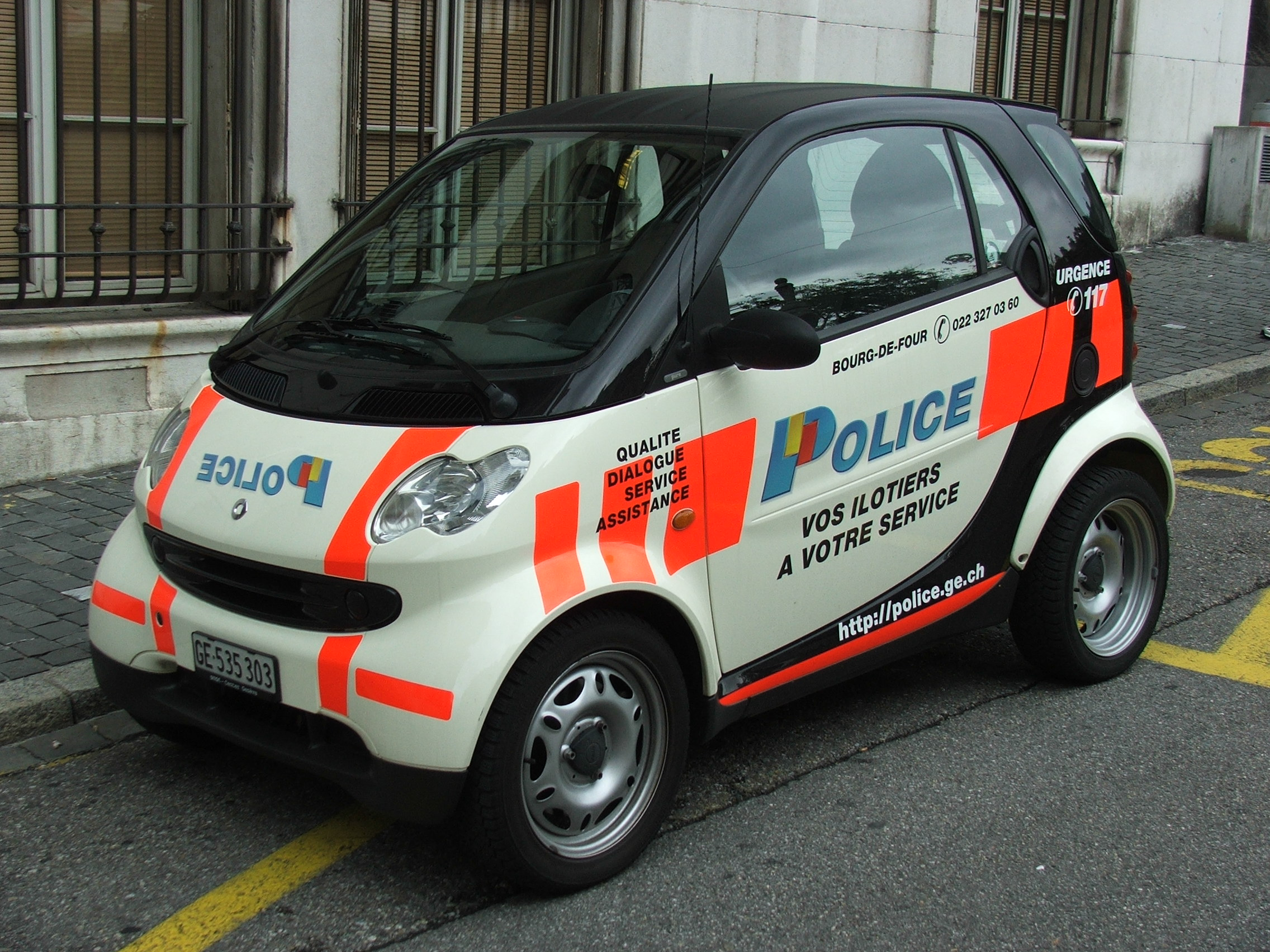 Smart vehicles of Cantonal Police of Geneva, Switzerland